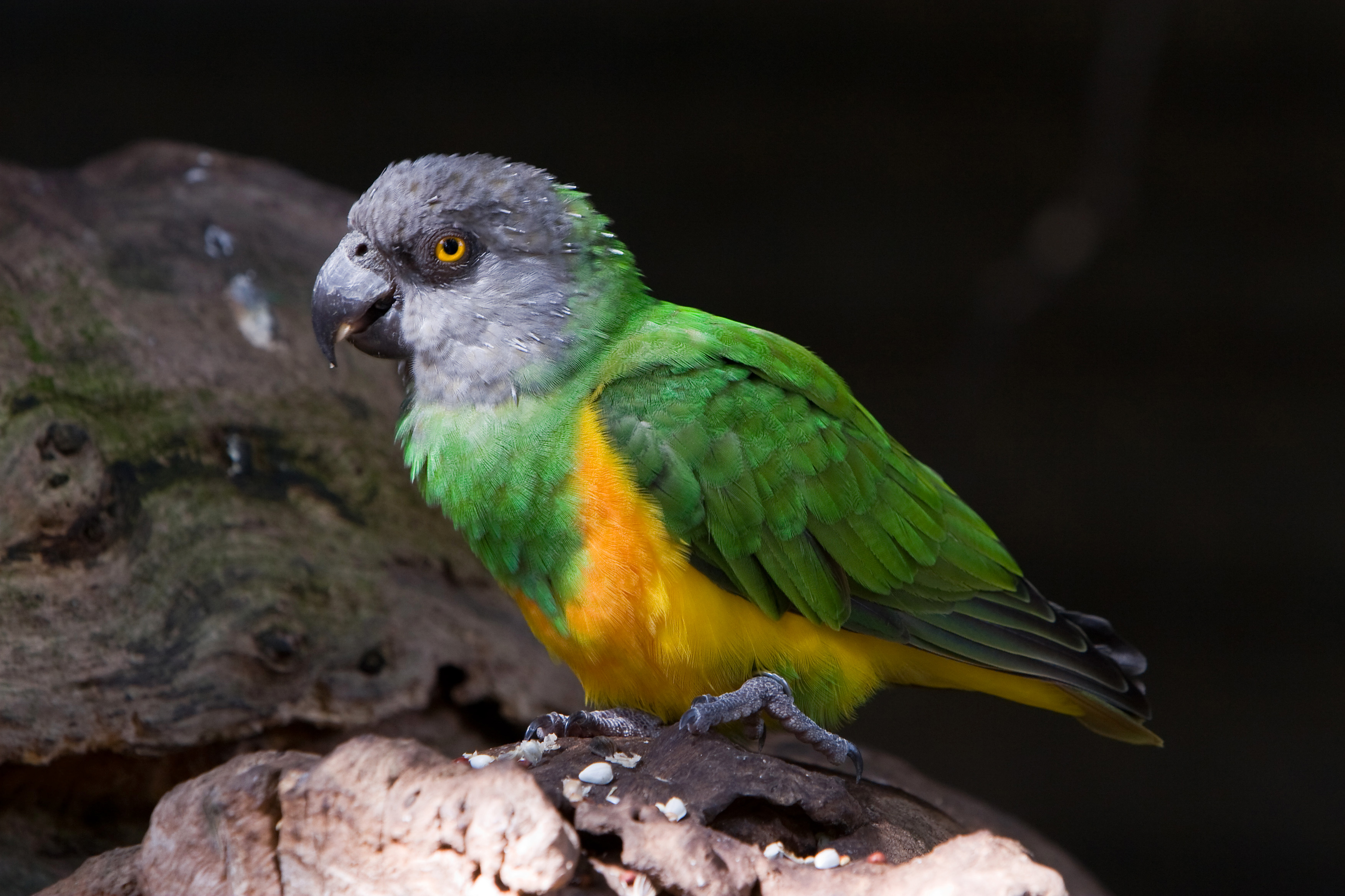 An adult Senegal Parrot at Artis Zoo, Amsterdam, Netherlands. The extent of yellow tends to indicate that it is probably a male.